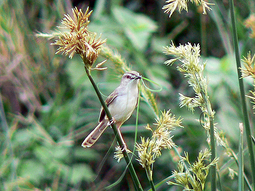 Tawny-flanked Prinia (Prinia subflava) in Kruger National Park, South Africa.